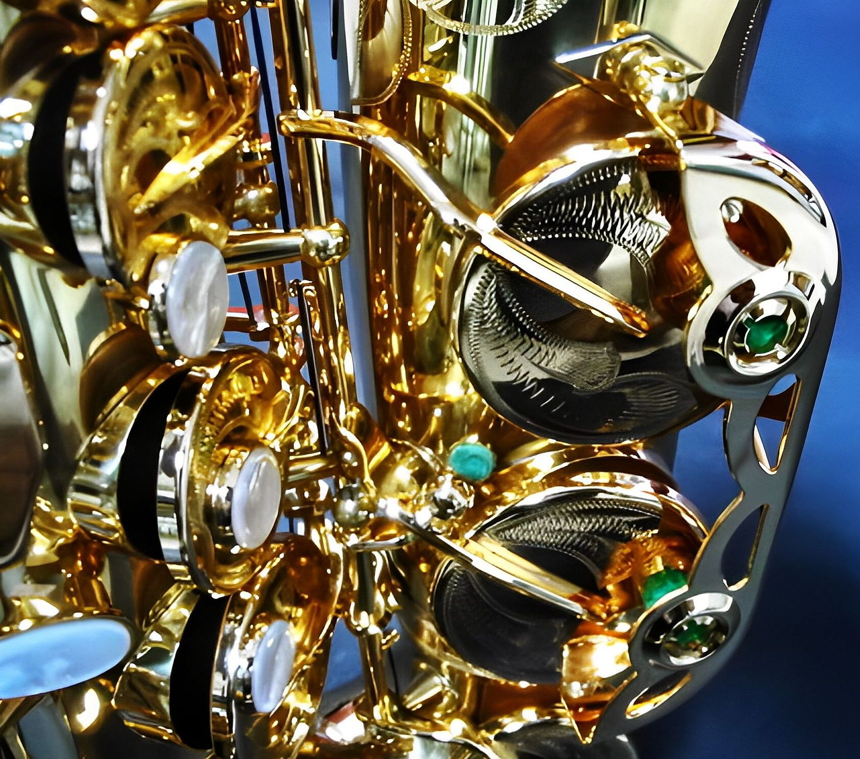 P.Mauriat Saxophones